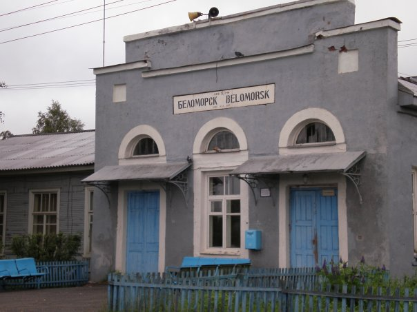 Train station, Belomorsk